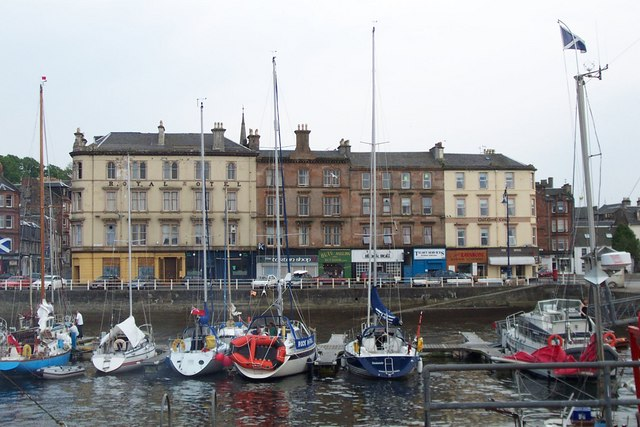 Rothesay shops From the pier head.